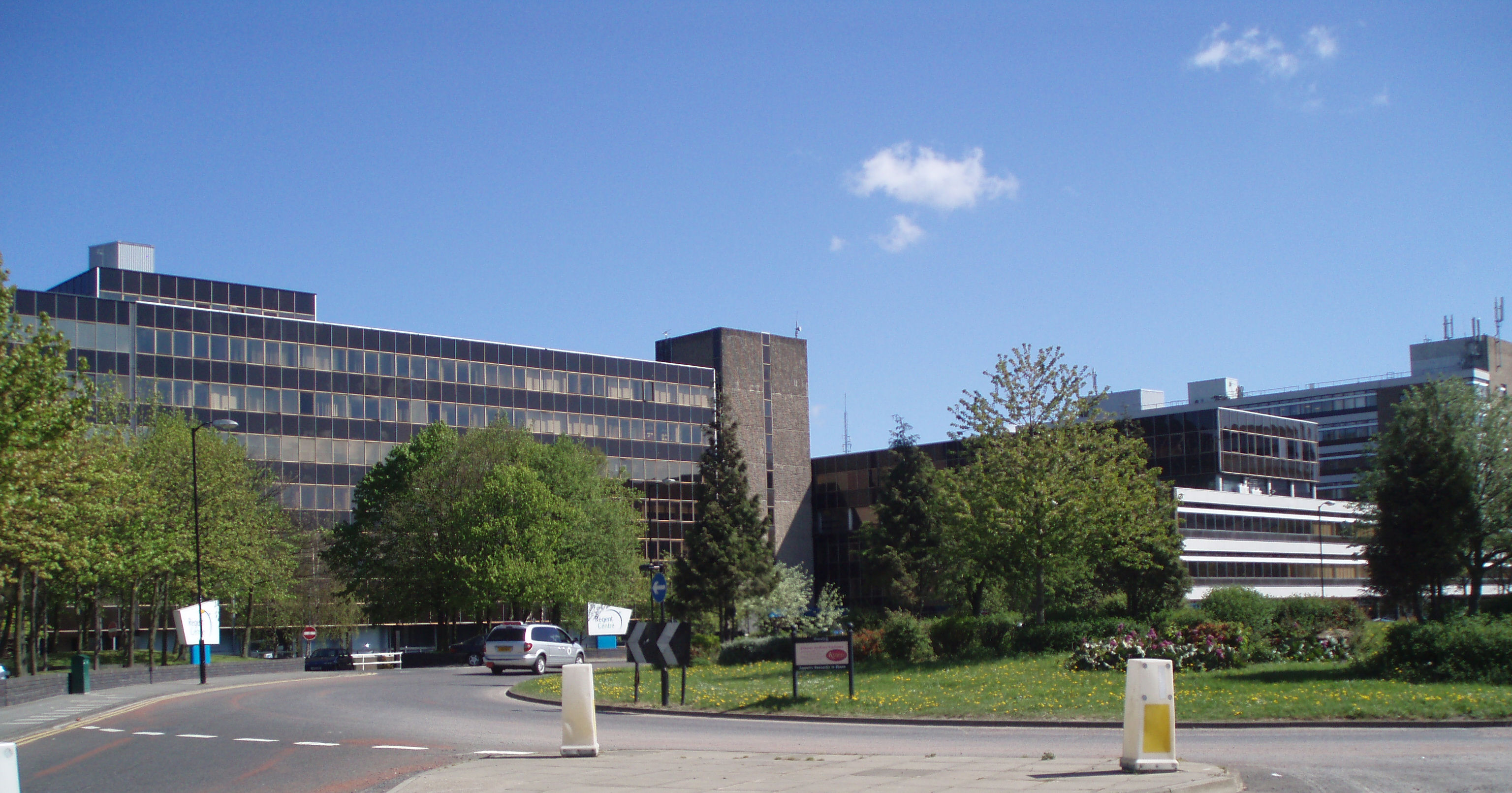 A photograph of some of the Regent Centre office buildings, in Gosforth, Newcastle upon Tyne, England